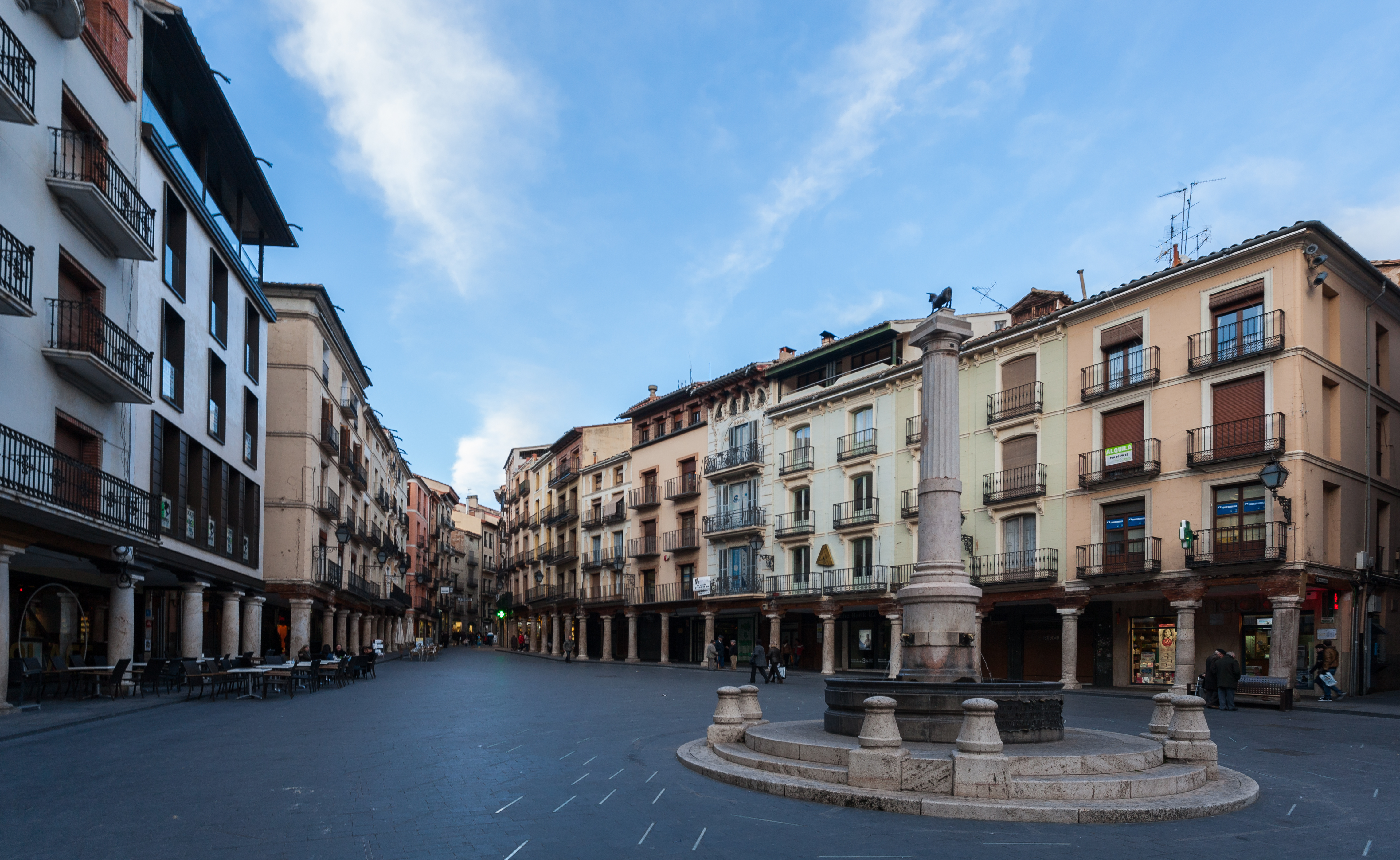 Torico square, Teruel, España